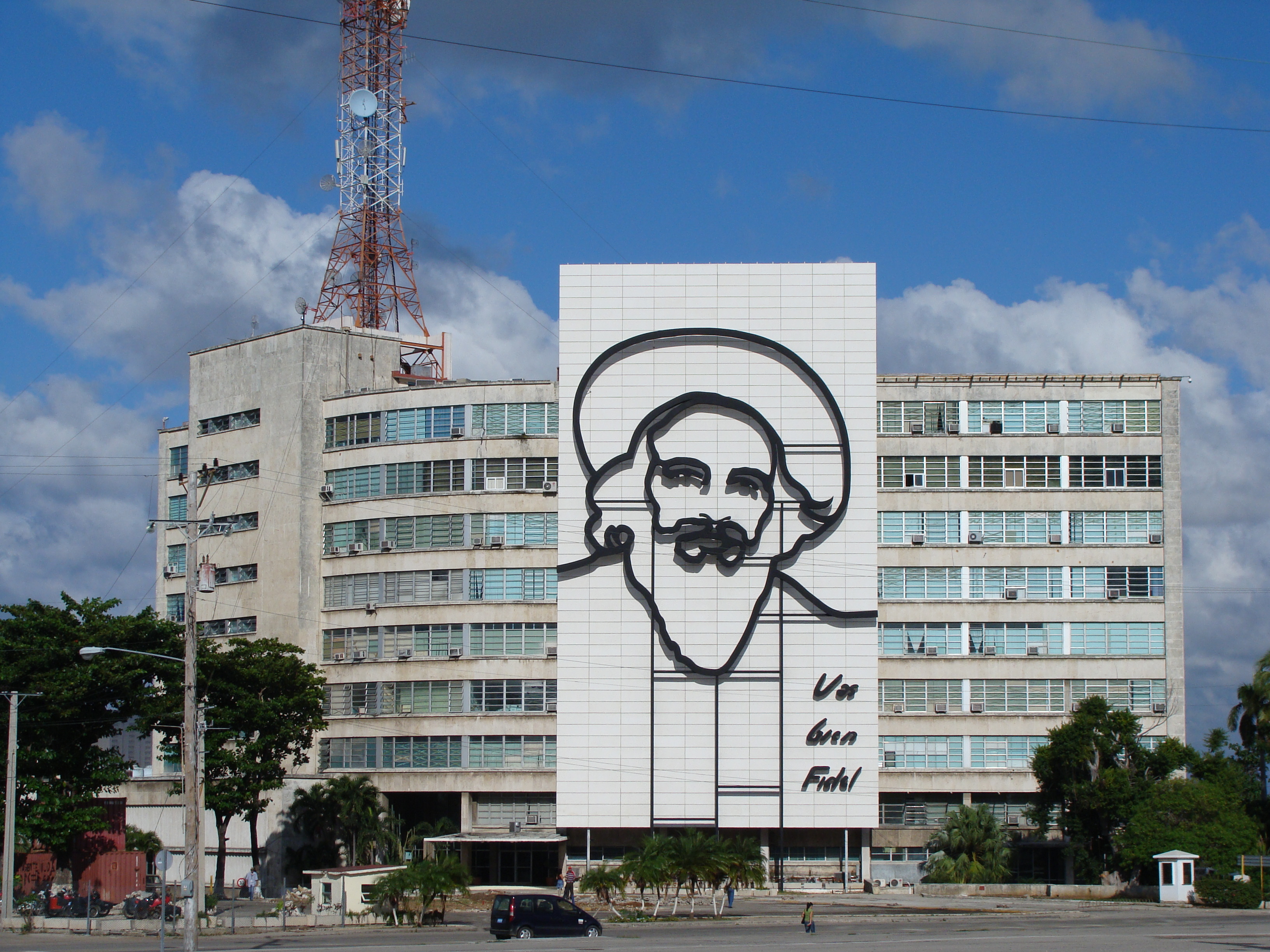 This is the Ministry of Informatics and Communications with the image of Camilo Cienfuegos adorning the side of the building. The building is located in José Martí Plaza de la Revolución.